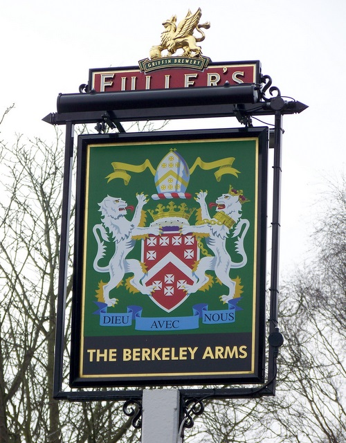 Sign for the Berkeley Arms. The sign is to be found on the small triangle of green in front of the pub.